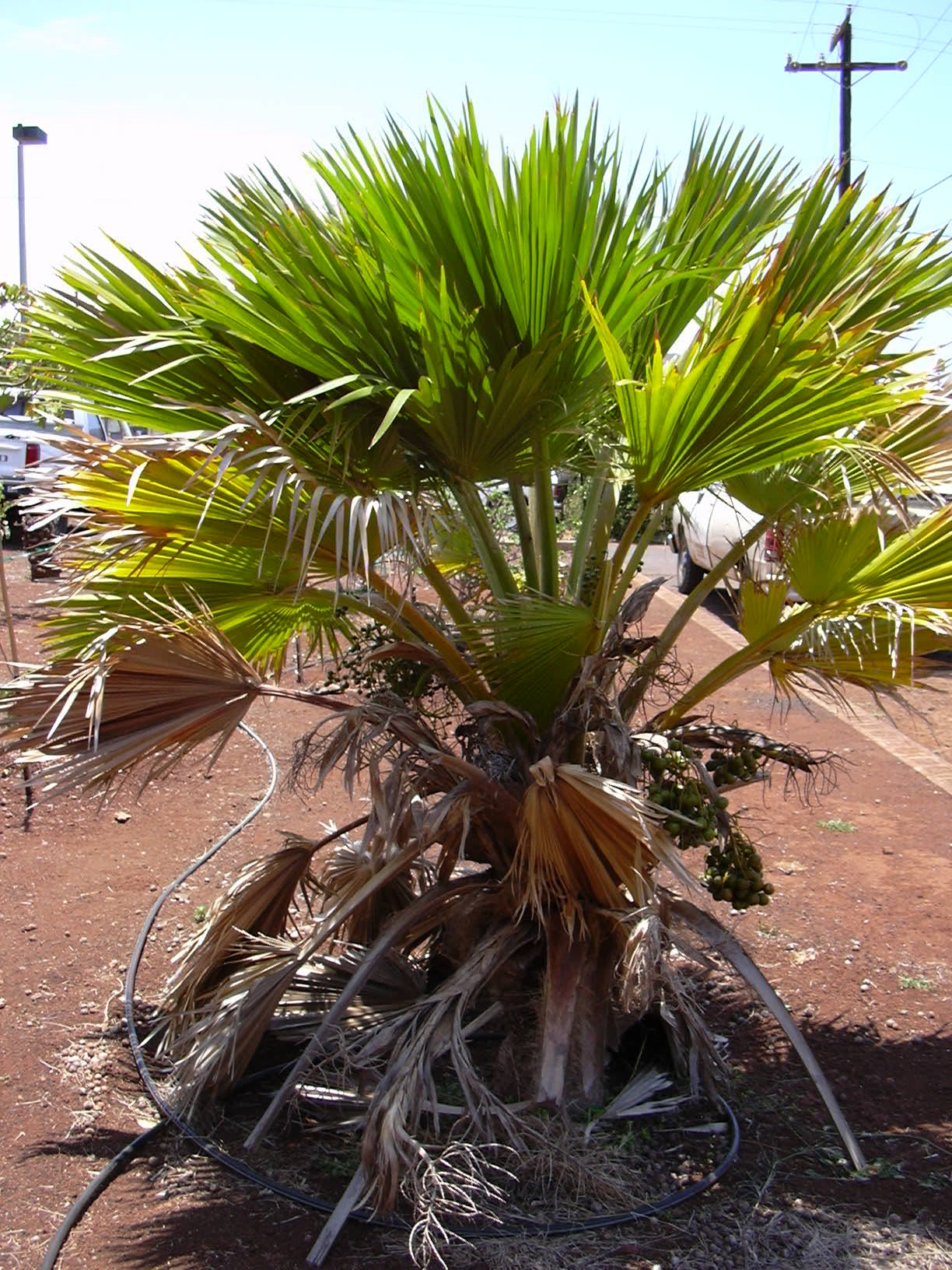 Pritchardia glabrata (habit). Location: Maui, State nursery Kahului